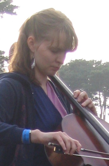 Hildur Guðnadóttir in 2007, at the Faster Than Sound festival in Suffolk.